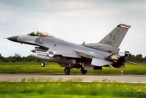 F-16C of the 924th Fighter Wing, Bergstrom Air Force Base Texas (Air Force Reserve).